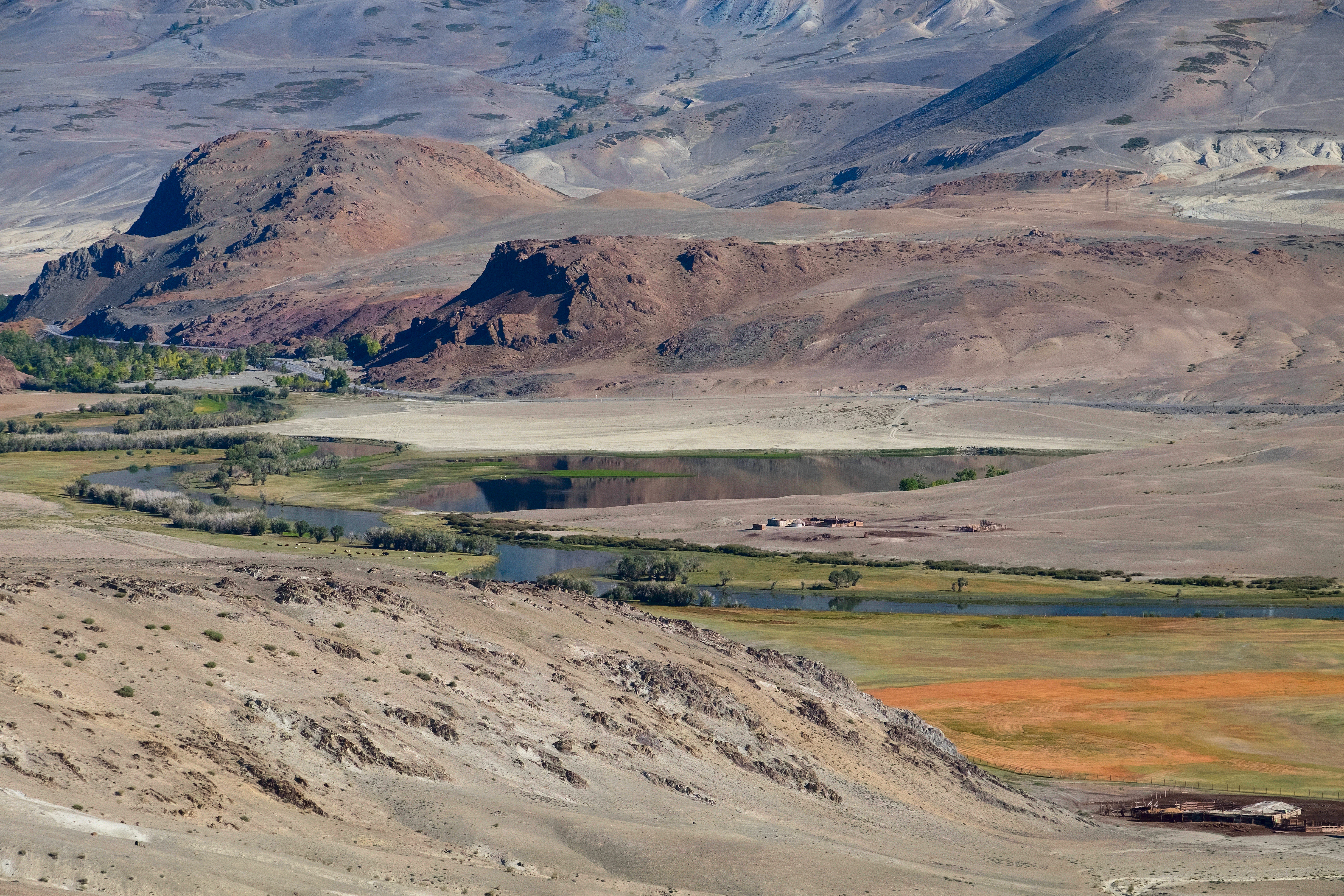 Krasnogorskoye Lake and Krasnaya Gorka facilities in Kosh-Agach Aimak, Altai Republic